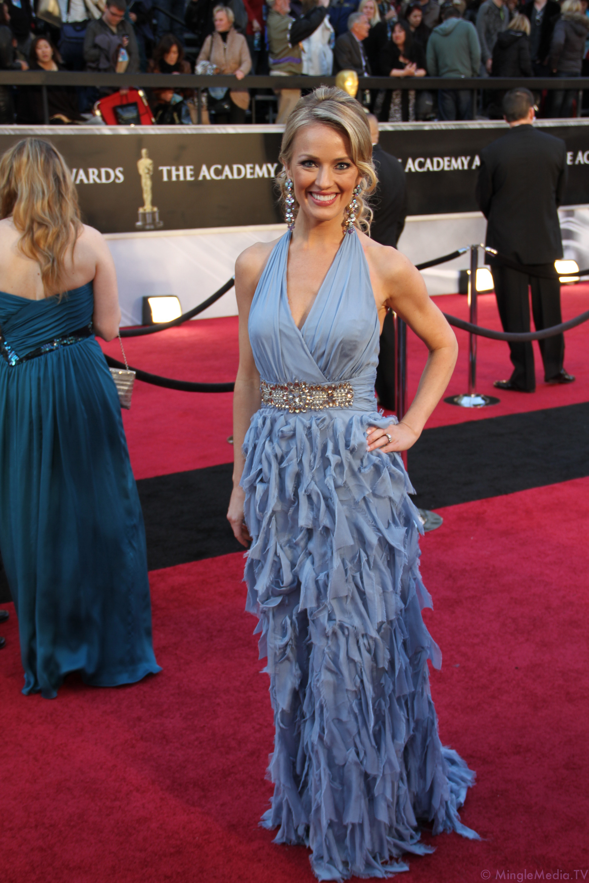 Brooke Anderson at the 83rd Academy Awards Red Carpet